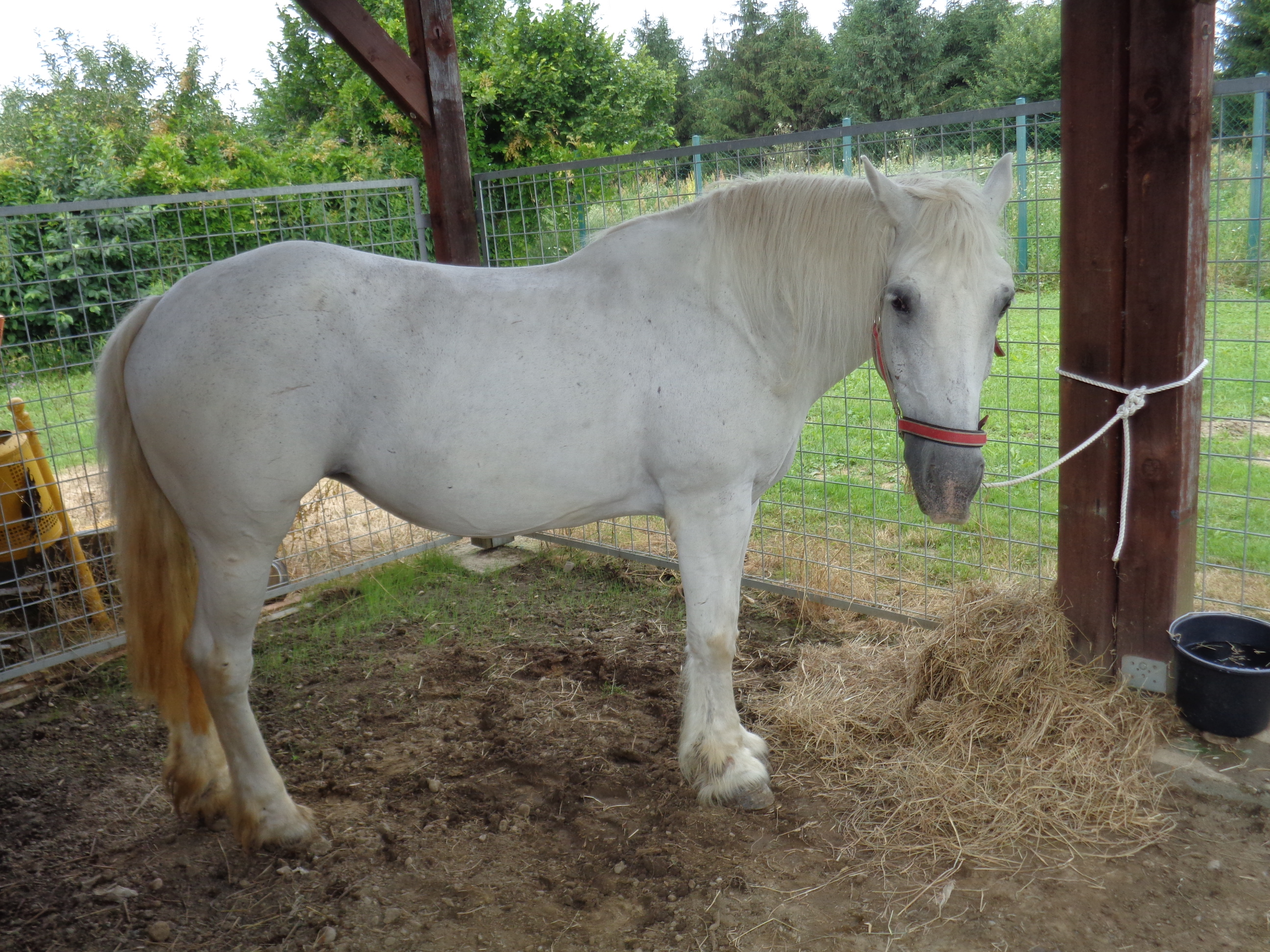 Hrvatski posavac (Croatian Posavina-Horse), horse breed of Croatia, at 2018 MESAP Trade Fair in Nedelišće, Medjimurje County, Croatia